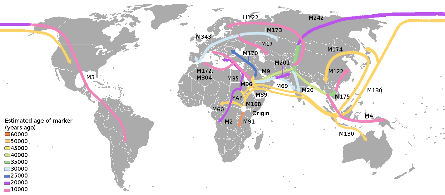 A schematic showing the spreading of humans in history. The schematic is made based on an image in the magazine "Natuurwetenschap en techniek, oktober 2009". This image in the magazine was an image made using data from the |w|Genographic Project